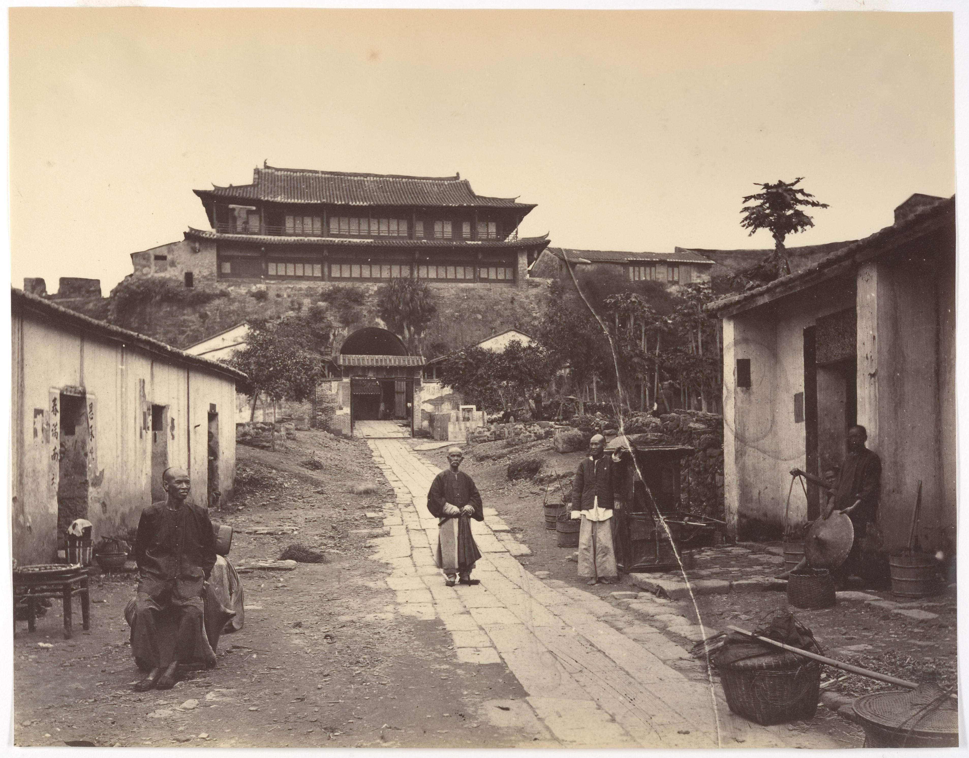 The Large North Gate in Canton, China